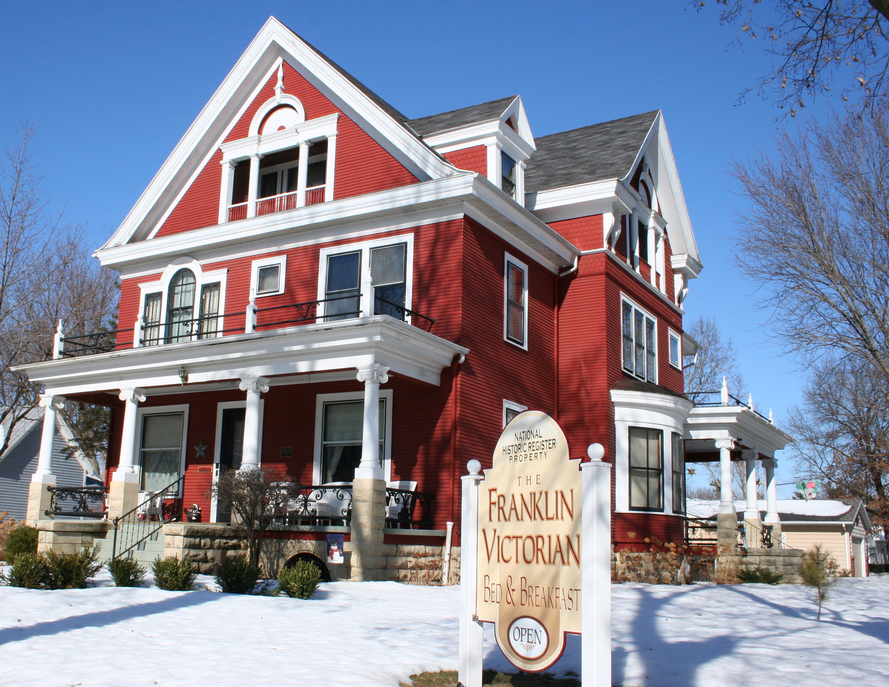 Franklin Victorian Bed & Breakfast (historic William G. and Anne Williams House) at 220 East Franklin Street in Sparta, Monroe County, Wisconsin.